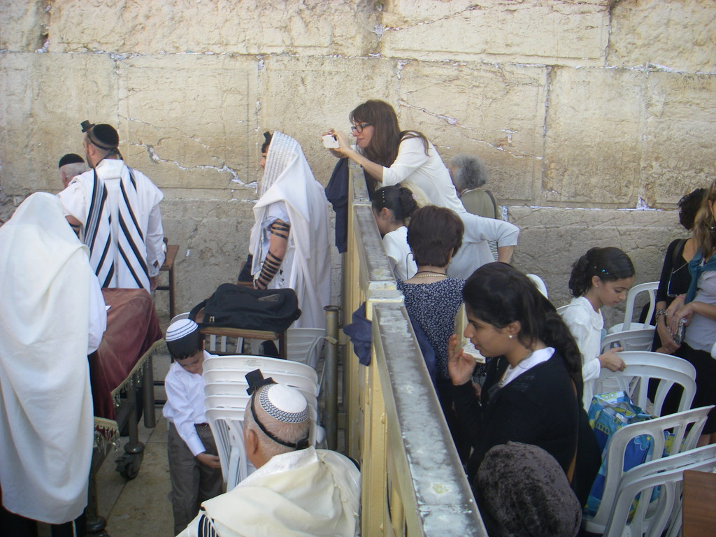 Separation between the female portion of the western wall in Jerusalem